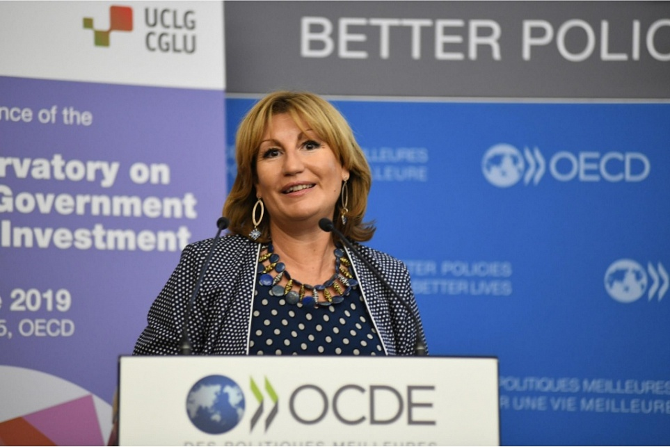 For more on the observatory